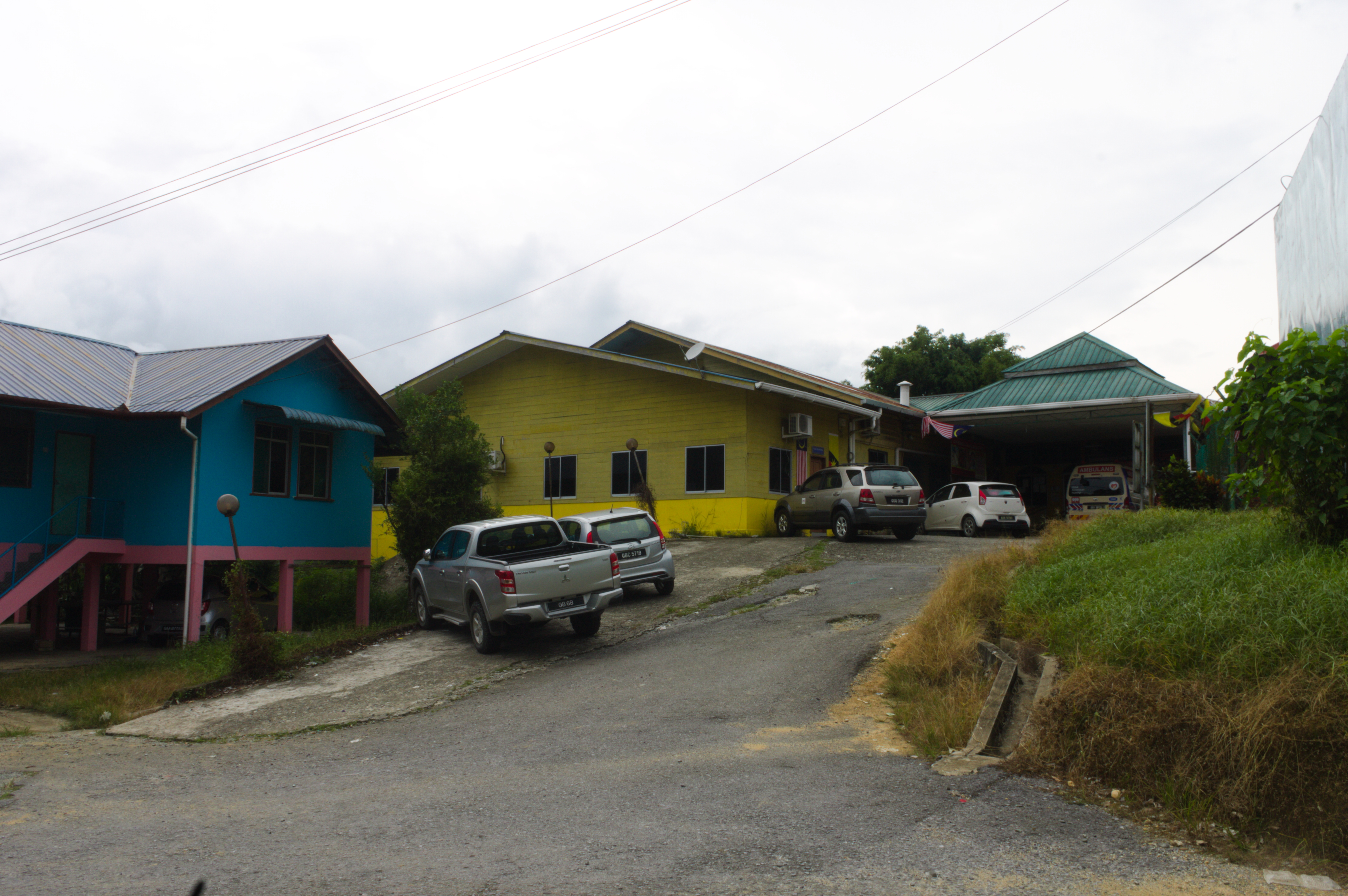 Klinik Kesihatan Julau